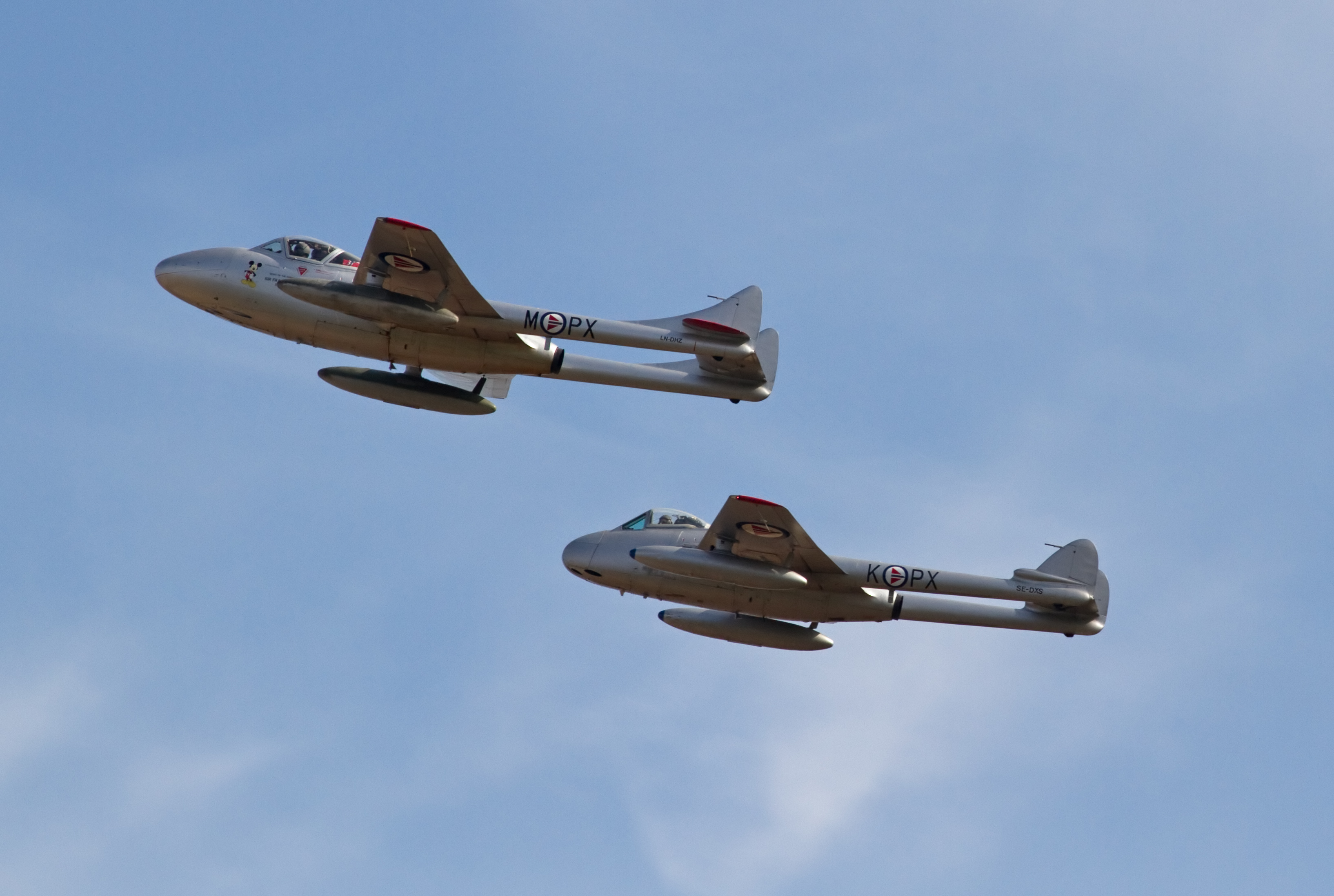 Norwegian Vampires 4a